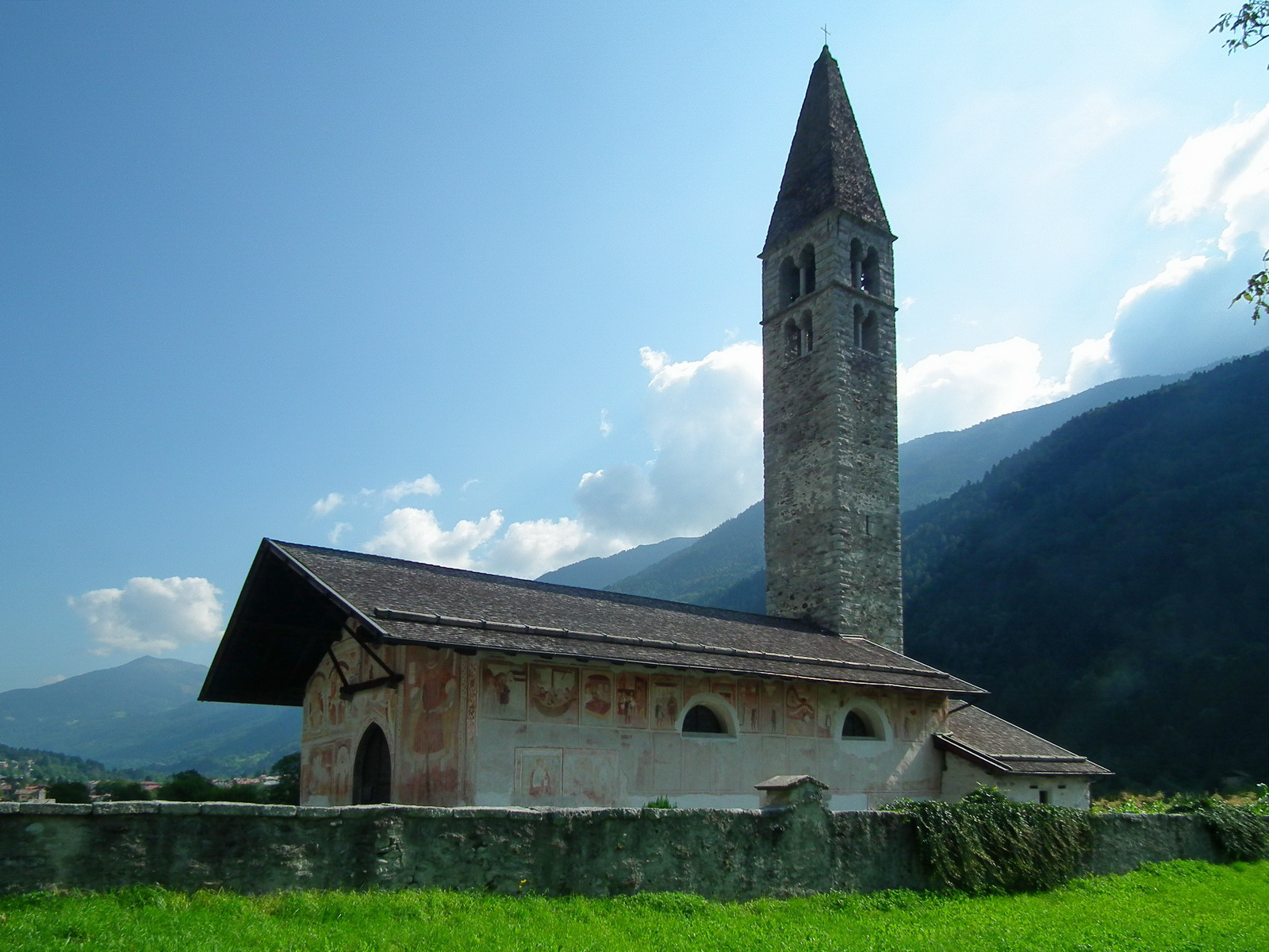 Sant'Antonio Abate, Pelugo Church of Saint Anthony Abbot Native nameChiesa di Sant'Antonio AbateLocationPelugo, Trentino-Alto Adige, ItalyCoordinates46° 05′ 30.74″ N, 10° 43′ 48.17″ E Authority control : Q5117026 institution QS:P195,Q5117026